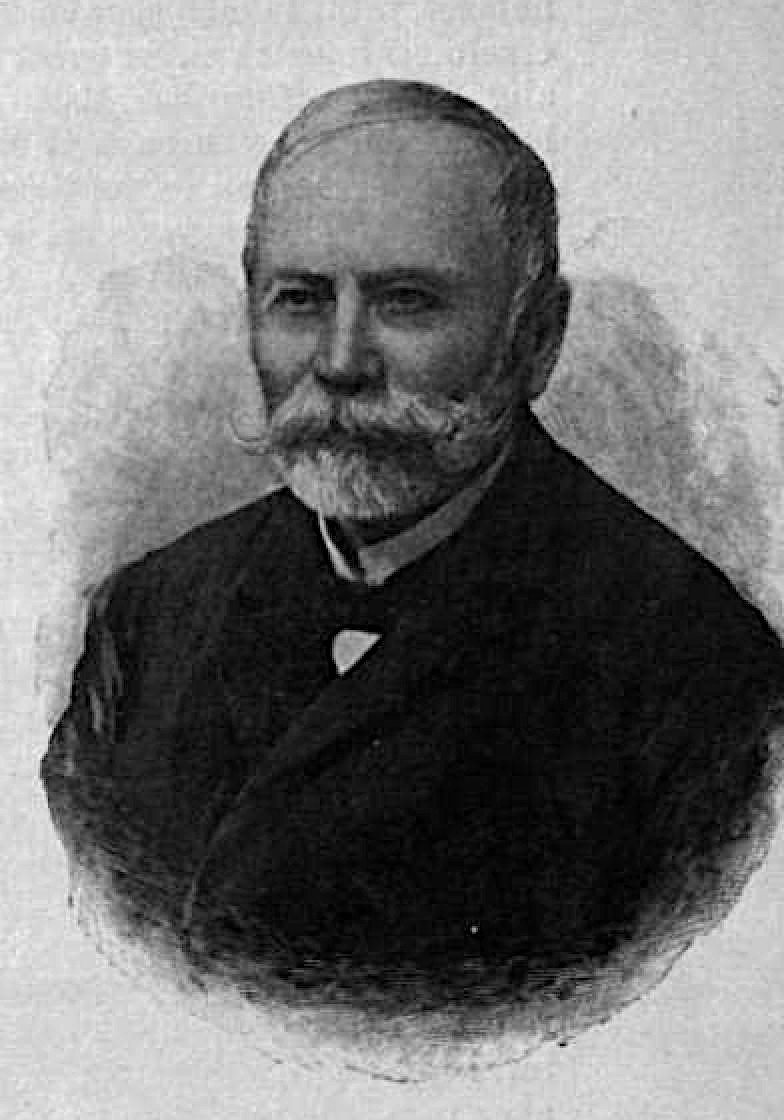 Sándor Imre (linguist)